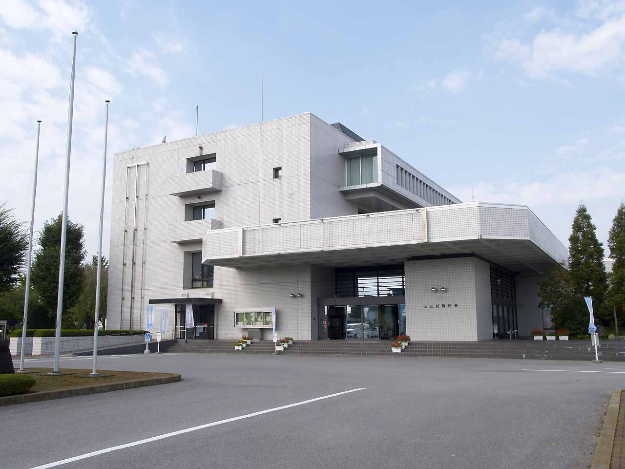 Forward of Kaminokawa Town Office